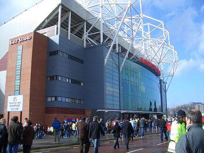 Old Traford